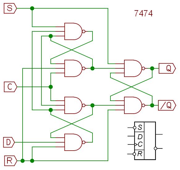 7474 flip flop circuit